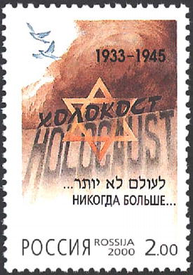 In memory of the holocaust victims, 2000